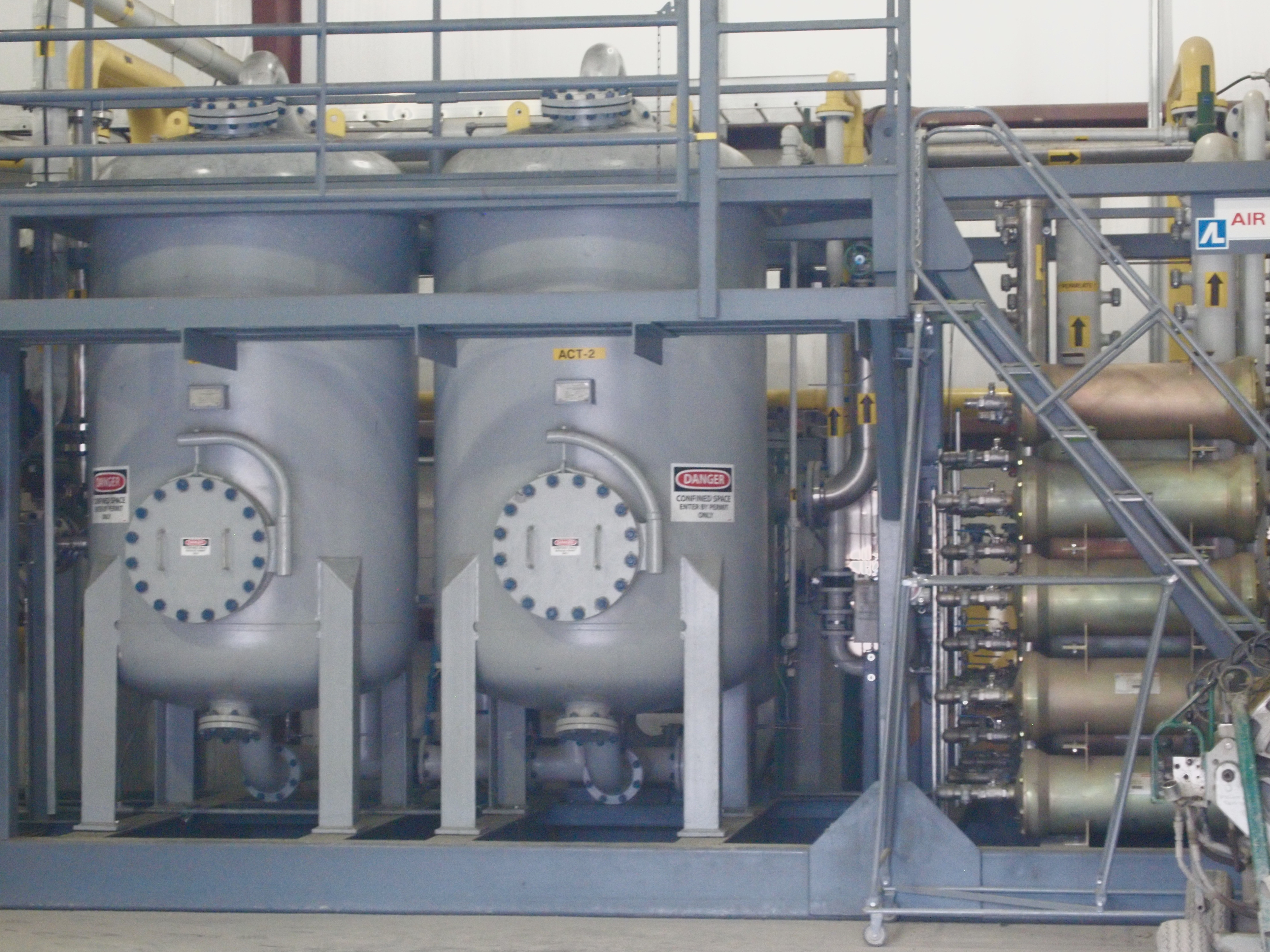 Gas separator membrane skid used in pressure swing adsorption to separate carbon dioxide from landfill gas to create utility-grade high purity methane gas to supply as natural gas